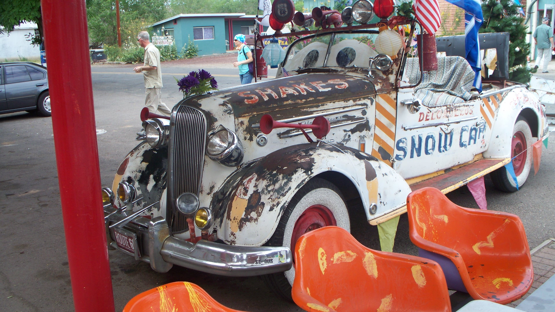 Juan Delgadillo's modified 1936 Chevrolet hardtop on permanent display in front of Delgadillo's Snow Cap Drive-In, on former US Highway 66 in Seligman, Arizona USA